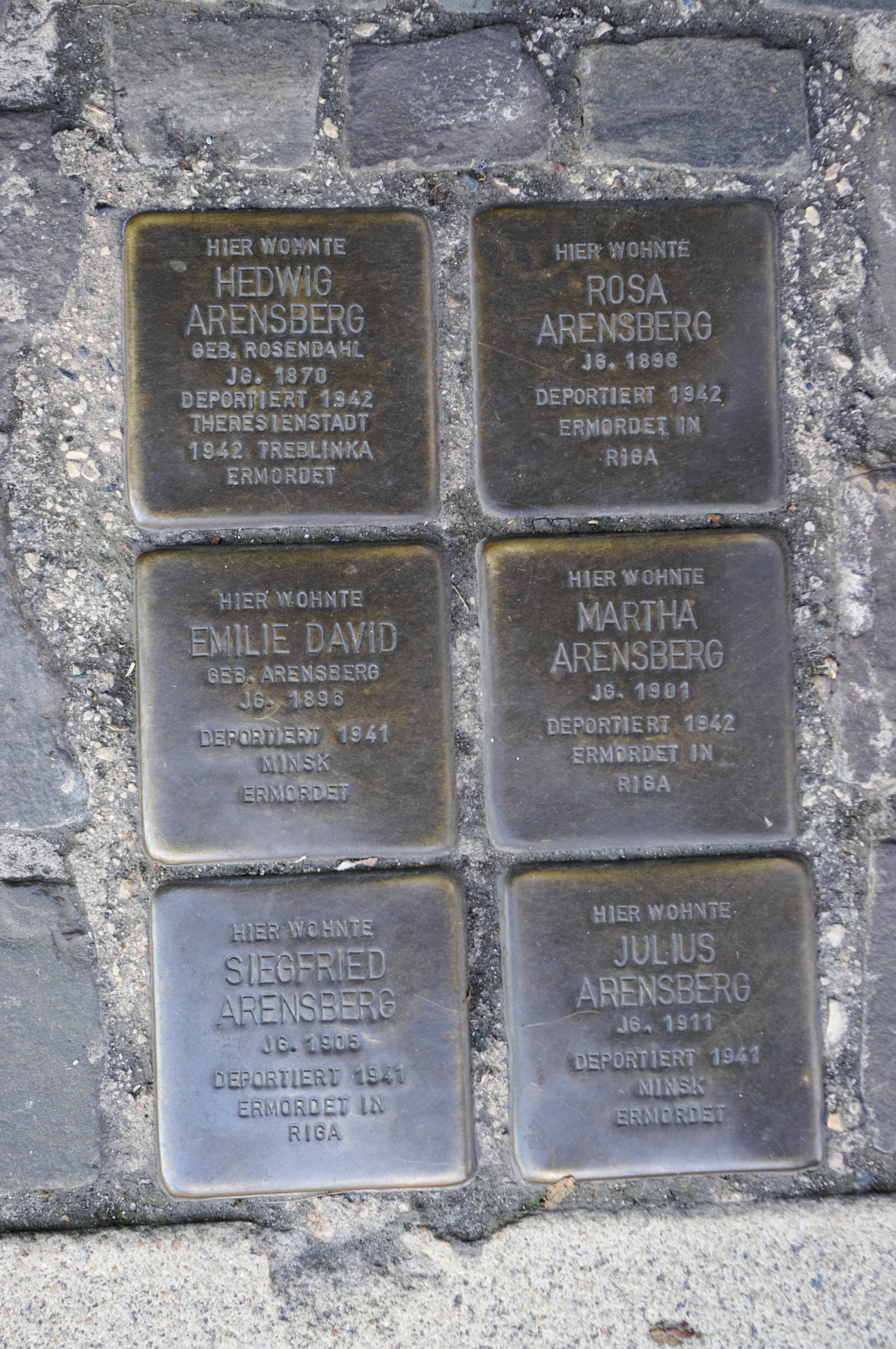 Stolpersteine at house Köln-Berliner-Straße 16 in Dortmund, Germany